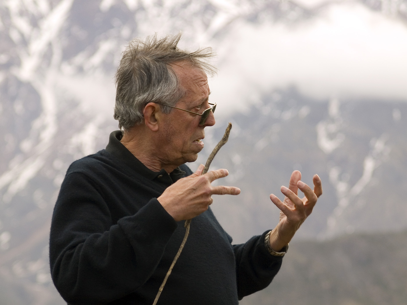 Silo speaks with filmmaker and friend Daniel Zuckerbrot (Canada) about inspiriational internal experiences. This footage was later edited in a documentary called "The Sage of the Andes". Ref